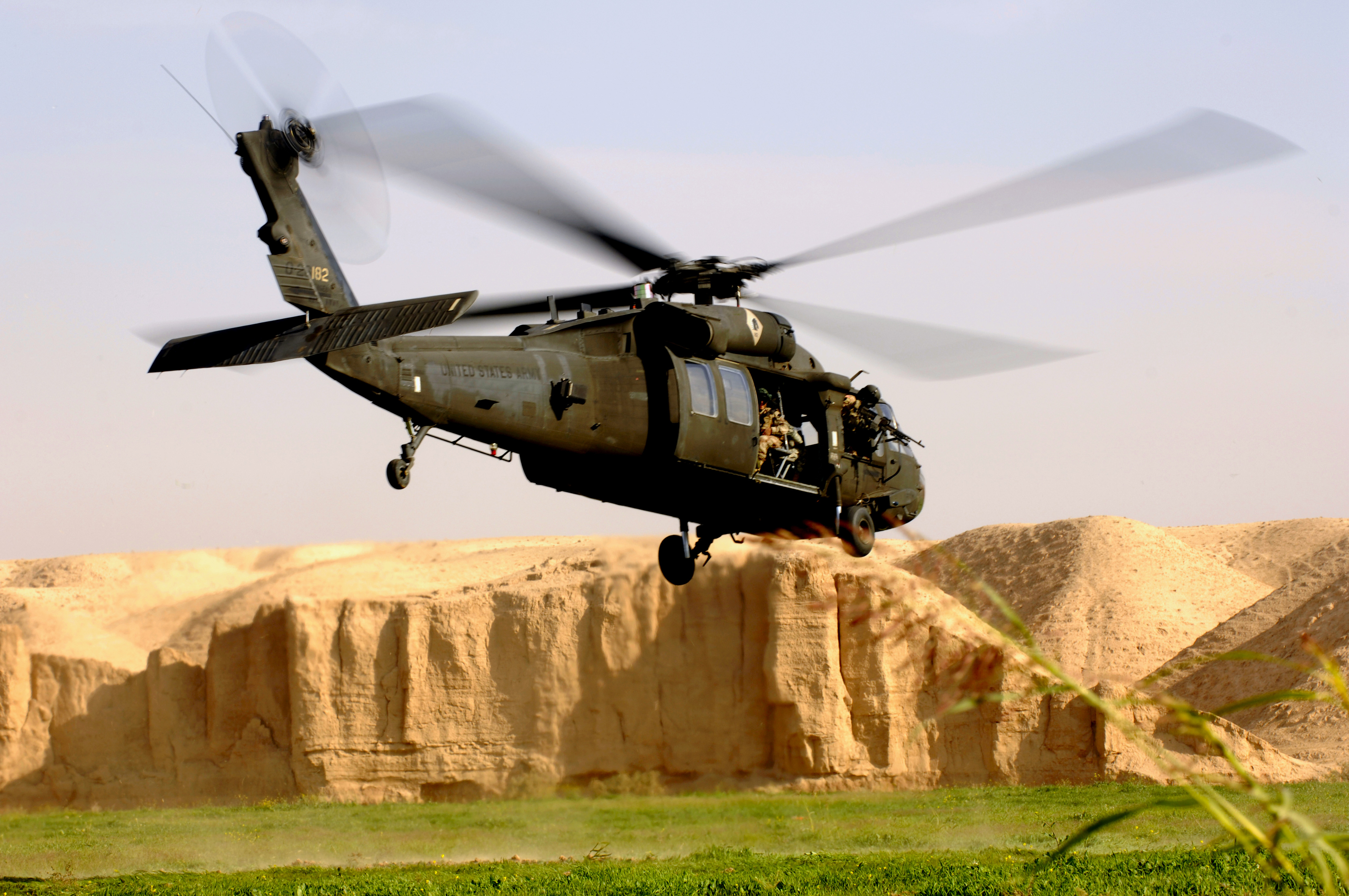 U.S. Army Soldiers from Charlie Company, 2nd Battalion, 22nd Infantry Regiment, 1st Brigade Combat Team, 10th Mountain Division and Iraqi army soldiers are picked up in a UH-60 Black Hawk helicopter after completing a three-day, 10-mile air assault mission along the Zaghytun Chay river, about 50 miles southeast of Kirkuk, Iraq, Nov. 20, 2007.